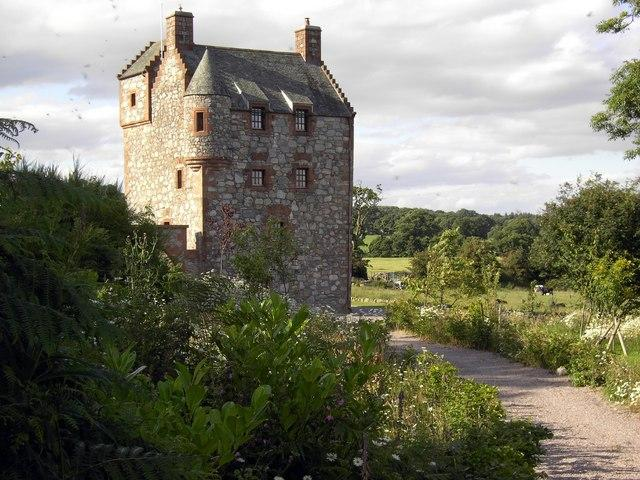 Abbots Tower A 16th century tower which had fallen into a state of disrepair, but was renovated in the 1990's.